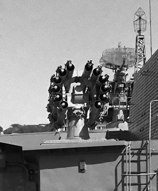 A RBU-6000 anti-submarine rocket launcher aboard the Udaloy class guided missile destroyer Admiral Tributs (552). (seach for DN number ro RBU-6000, image is crop of source image) Location: VLADIVOSTOK, SIBERIA RUSSIA (RUS) Camera Operator: PHC(AW) JEFF WOOD Date Shot: 22 Sep 1992